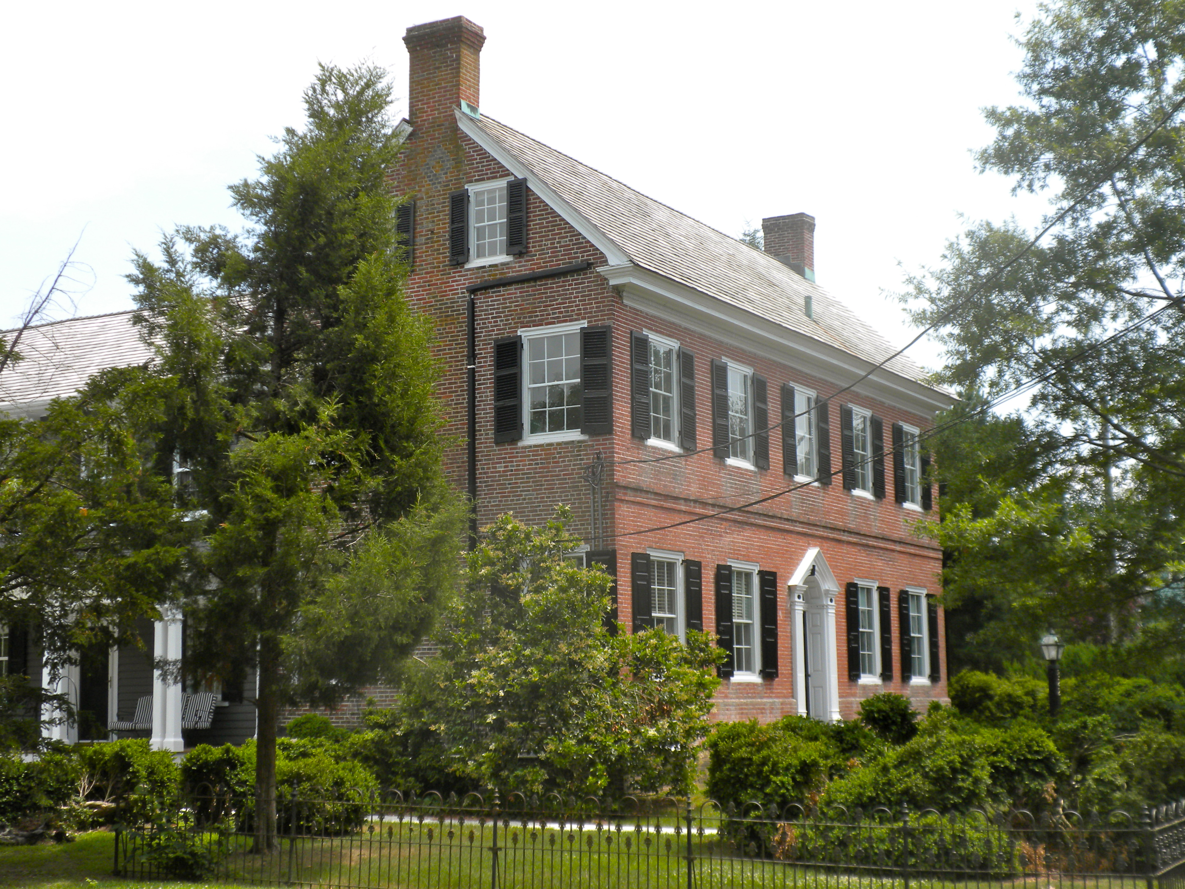 Joseph Falkinburg House on the NRHP since October 3, 1994. At 822 (NOT 922) Delsea Dr.(SR 47) in South Dennis, Dennis Township, Cape May County, New Jeersey